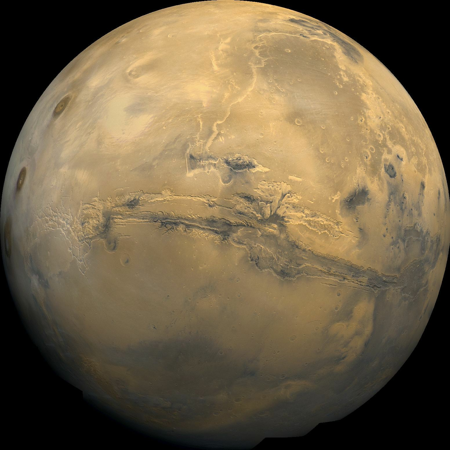 Global mosaic of 102 Viking 1 Orbiter images of Mars taken on orbit 1,334, 22 February 1980. The images are projected into point perspective, representing what a viewer would see from a spacecraft at an altitude of 2,500 km. At center is Valles Marineris, over 3000 km long and up to 8 km deep. Note the channels running up (north) from the central and eastern portions of Valles Marineris to the area at upper right, Chryse Planitia. At left are the three Tharsis Montes and to the south is ancient, heavily impacted terrain. (Viking 1 Orbiter, MG07S078-334SP) Some of the features in this mosaic are annotated in Wikimedia Commons.